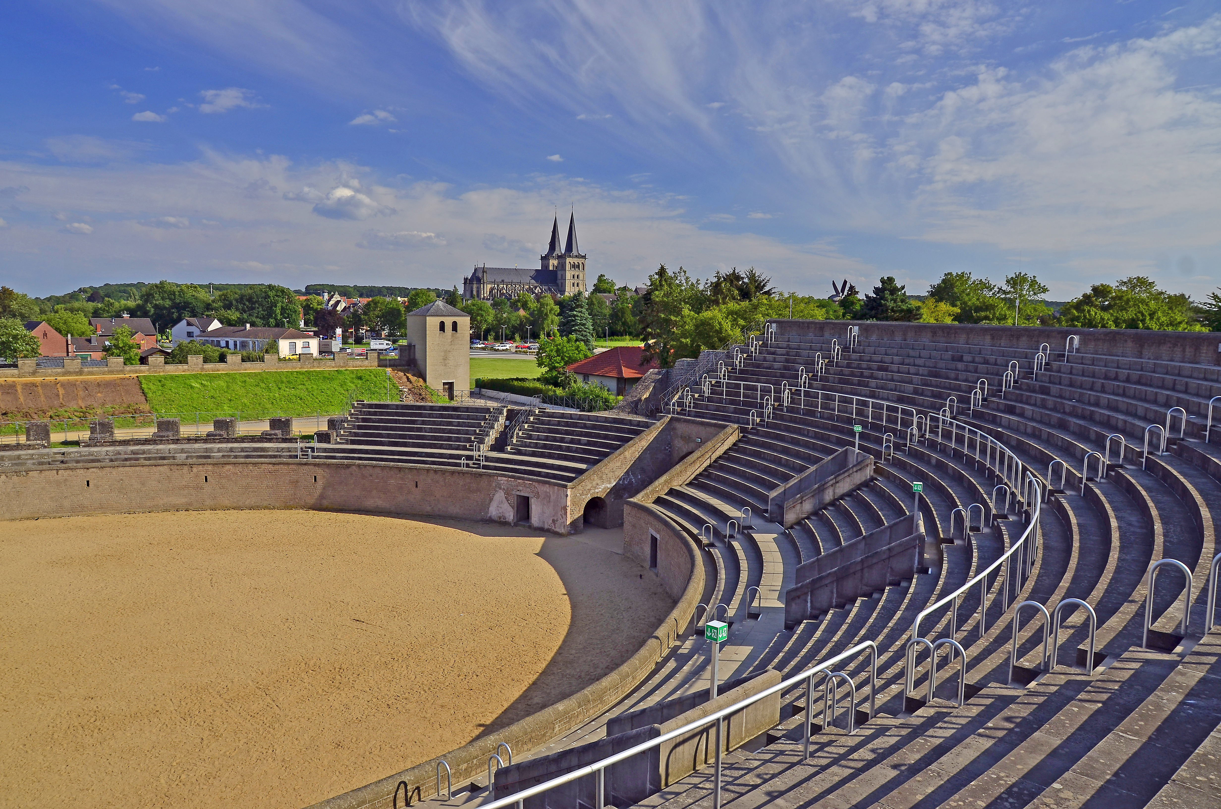 Xanten, Arena